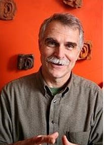 Photograph of sculptor Paul DiPasquale, creator of the Virginia Beach, Virginia King Neptune sculpture.